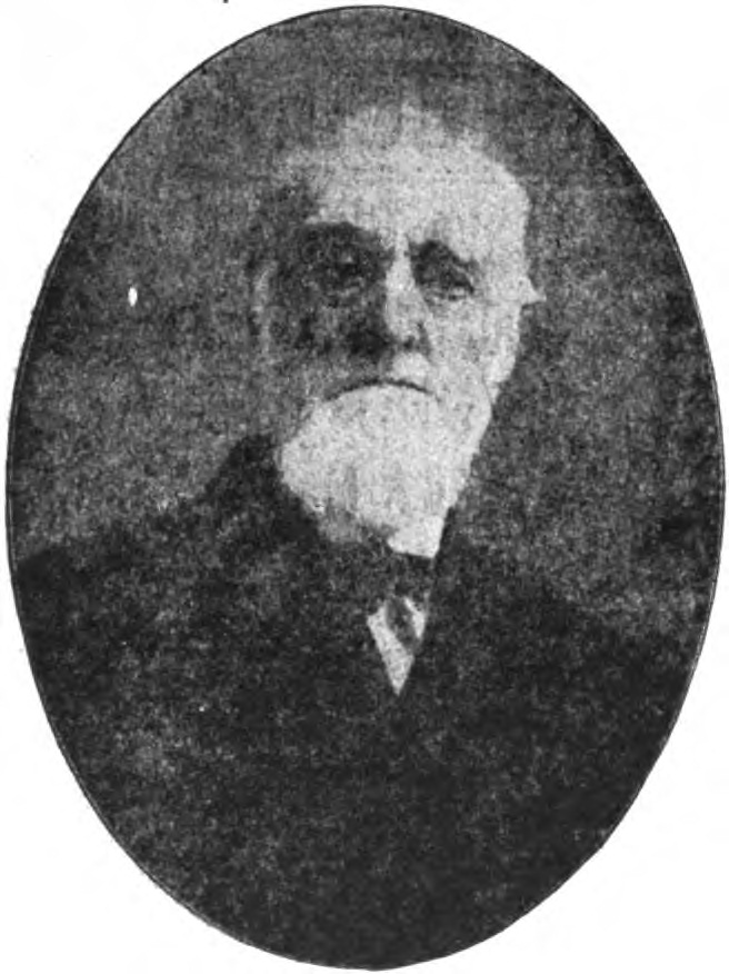 George W. Rue captured John Hunt Morgan near West Point, Ohio after the Battle of Salineville on July 26, 1863 during the American Civil War. This photo from about 1910 was included with a 1911 account of his address at the 47th anniversary commemoration on September 10, 1910. He was 83 years old at the time.